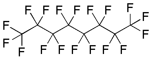 Chemical structure of Perfluorooctane.